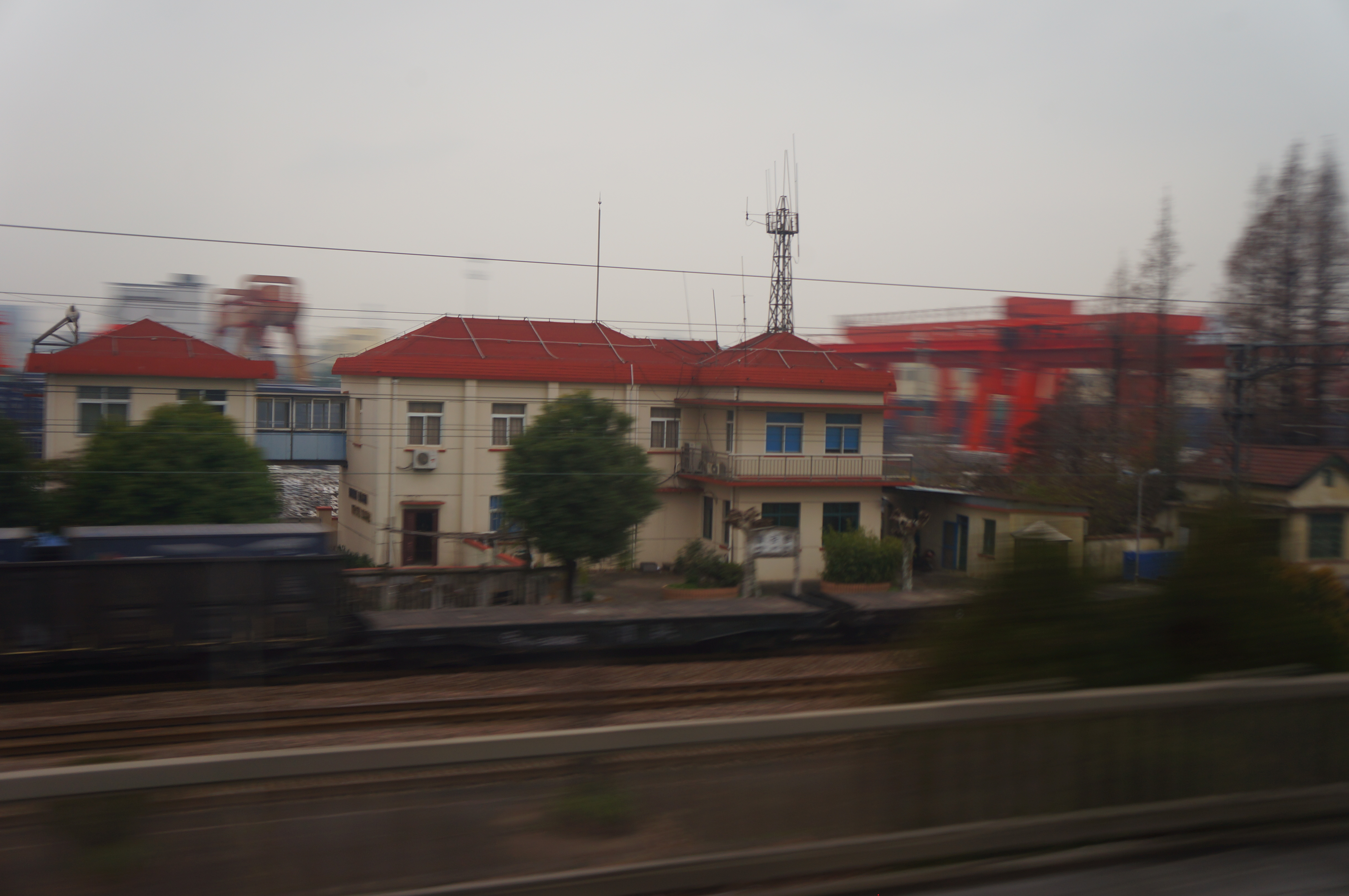 201712 Station building of Zhoujingxiang Station